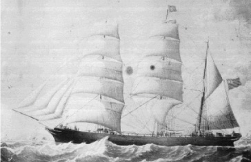 Artists impression of the ship 'Geltwood'